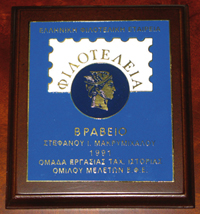 The Stephanos Macrymichalos Award (The object belongs to the Hellenic Philotelic Society library. The HPS Board has granted the license for its photo to be freely used)